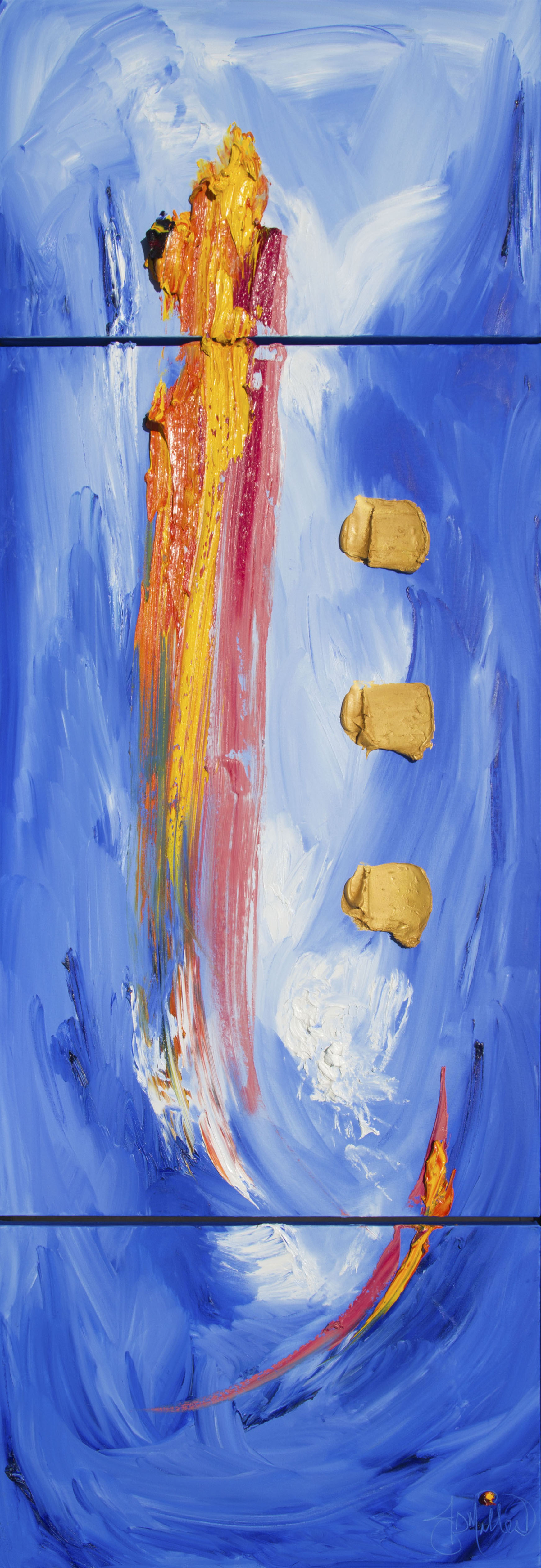 3D Oil Painting by JD Miller "Royal Ascension" 108 x 36 inches